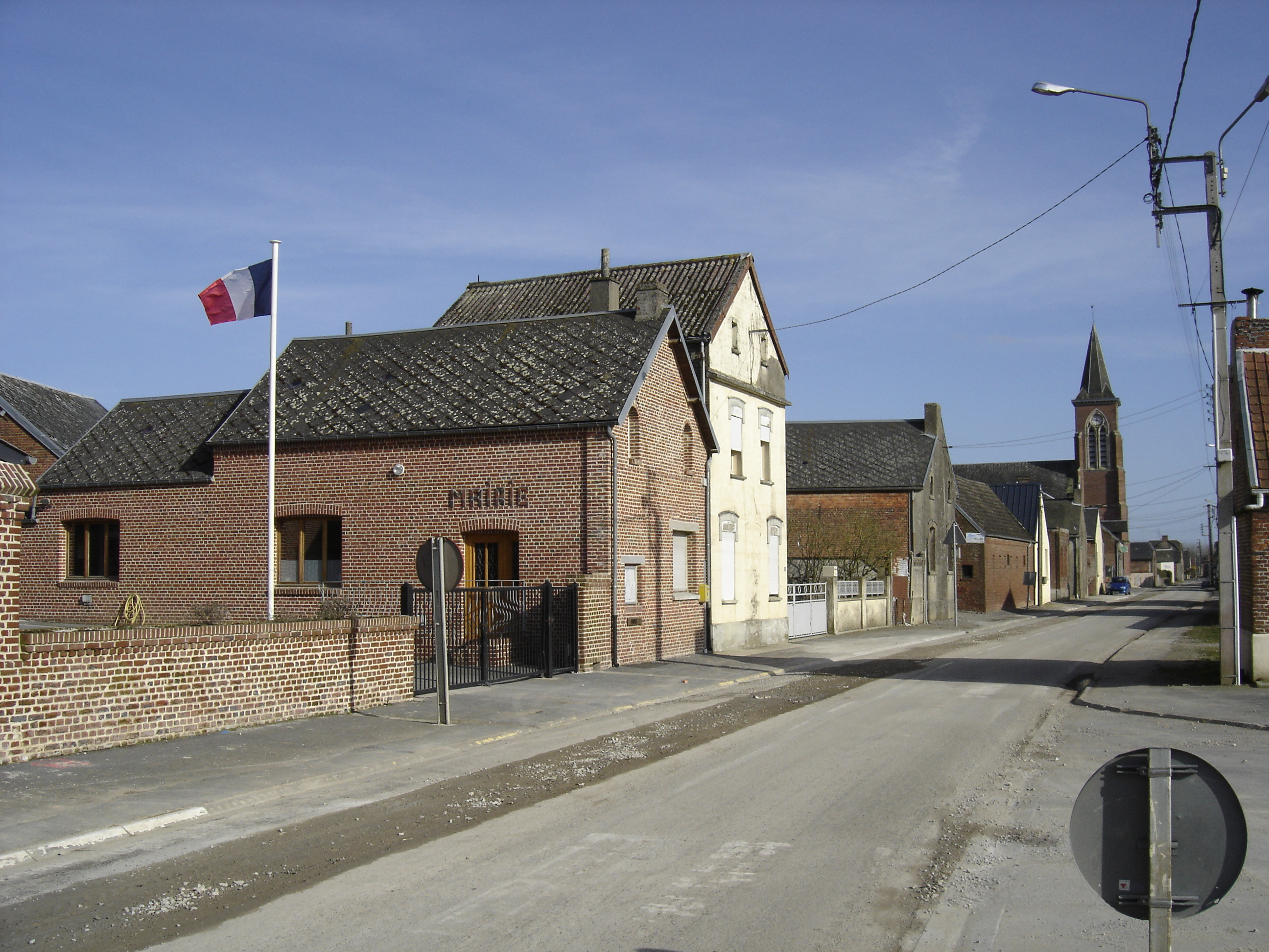 Mazinghien Overall view of the village